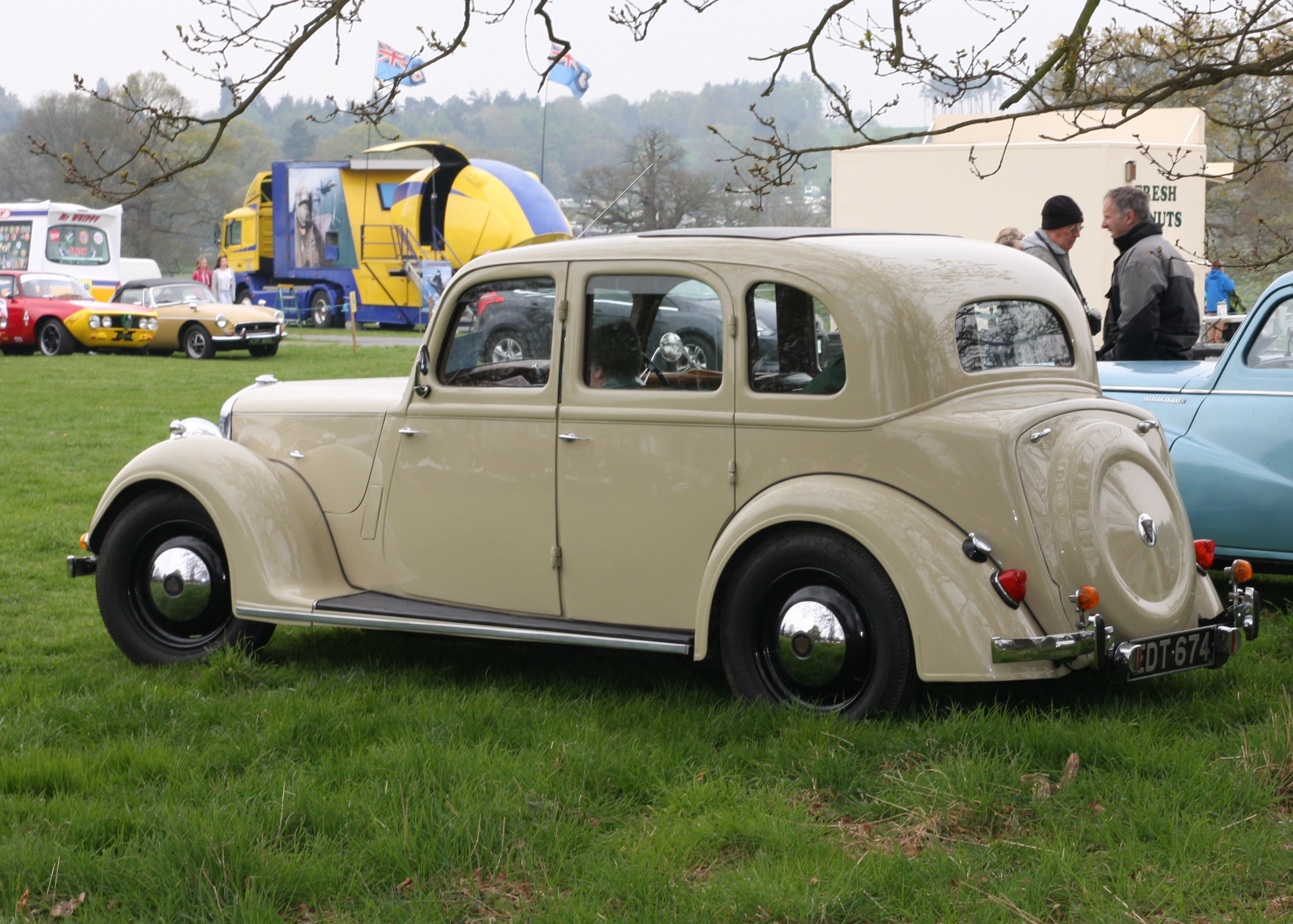 Rover 12 (1947) at Weston Park (2014)